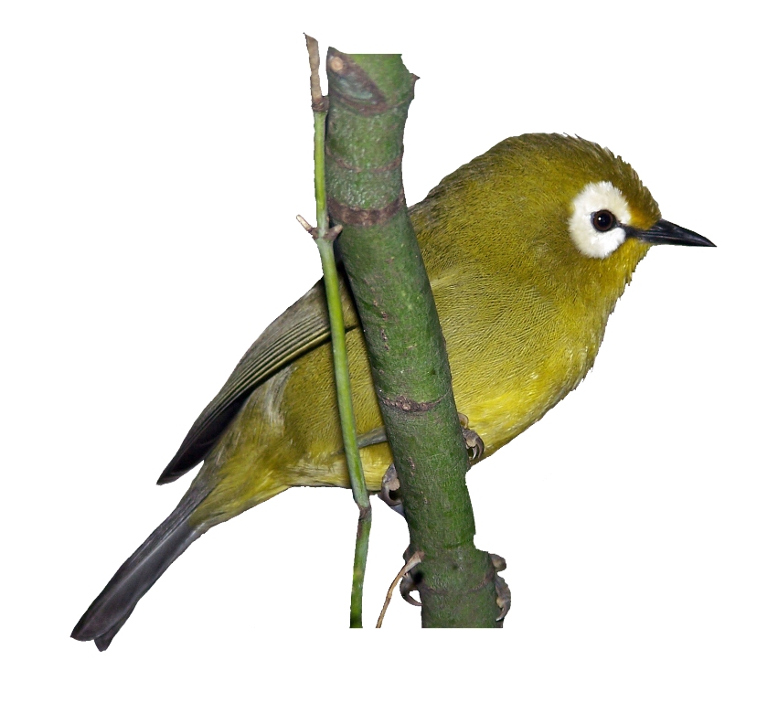 Zosterops poliogastrus eurycricotus (Heuglin, 1861)